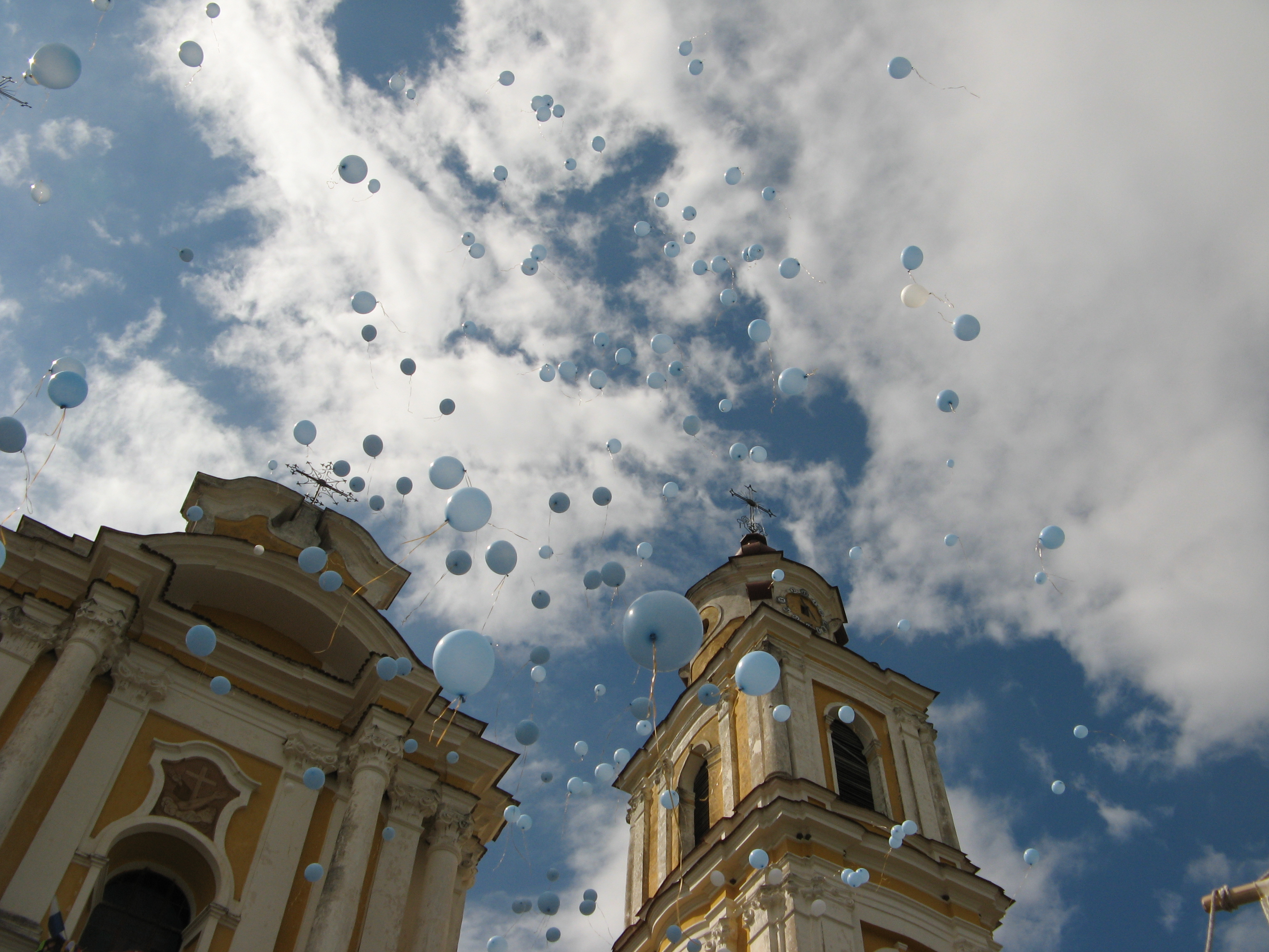 Feast of Our Lady of Budslau